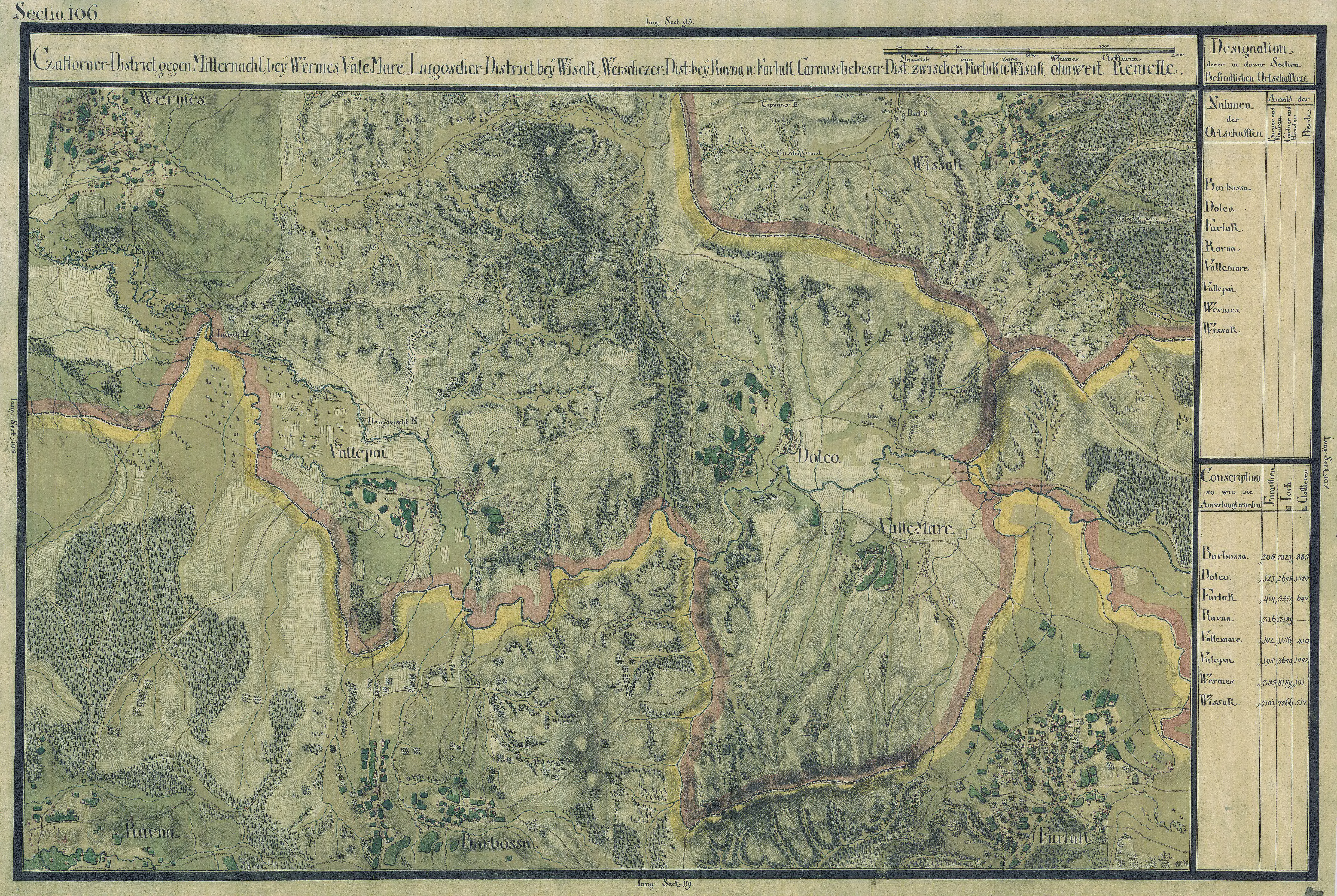 The Banat region in the cadastral maps: Josephinische Landesaufnahme, 1769-72. Josephinische Landaufnahme pg106